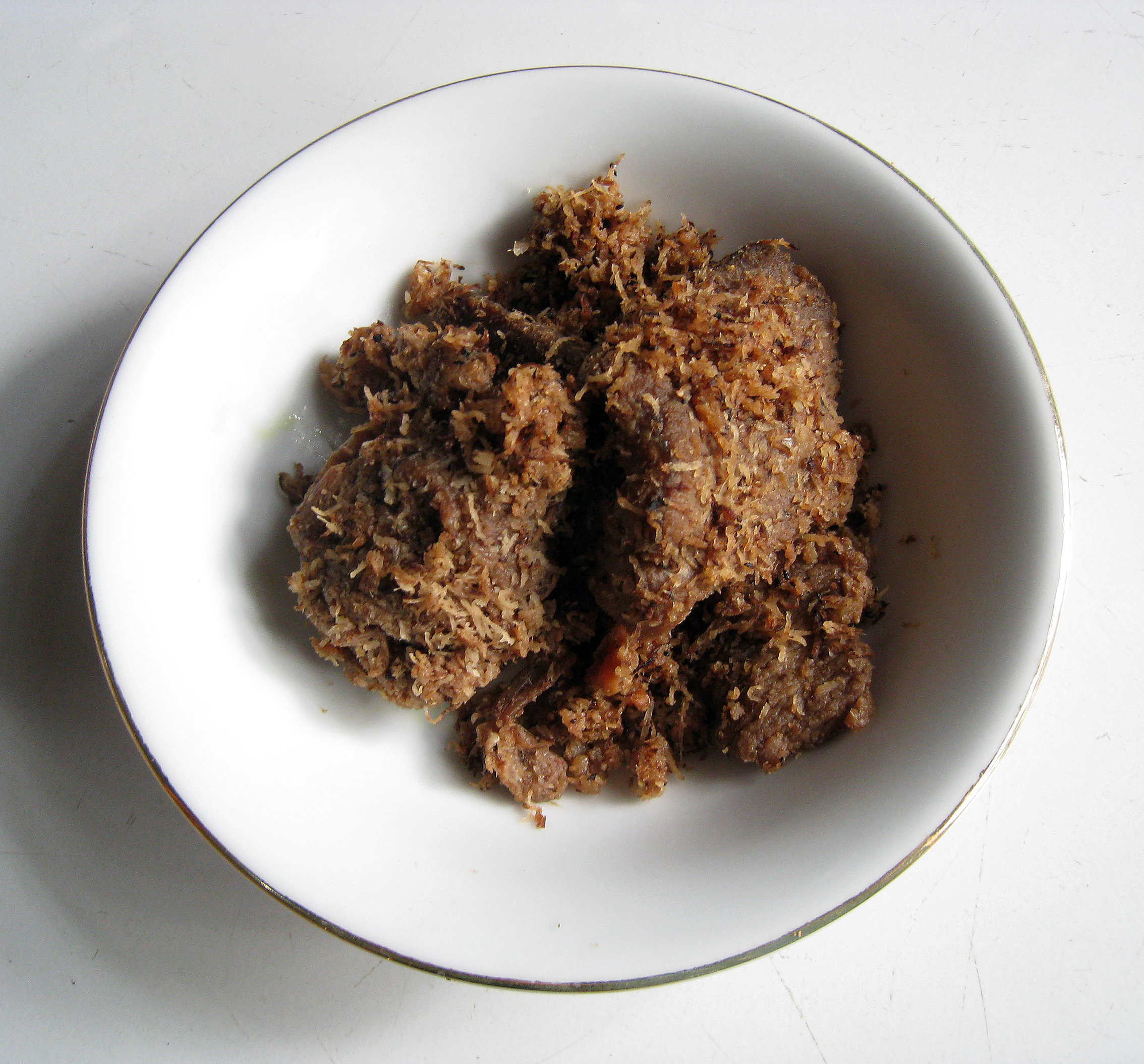 Serundeng Daging, fried beef in sauteed grated coconut and spices. Javanese cuisine, Indonesia.